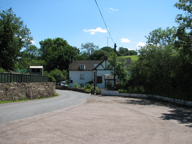 The Fountain Inn from the car park